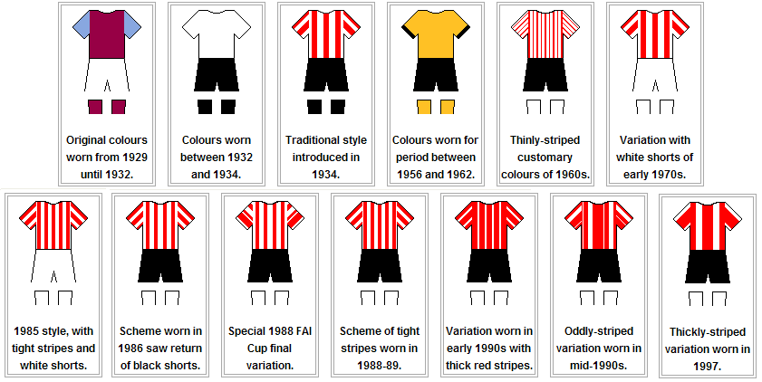 Past Derry City home-kit variations. Created by (Danny Invincible) using GFDL-licensed images